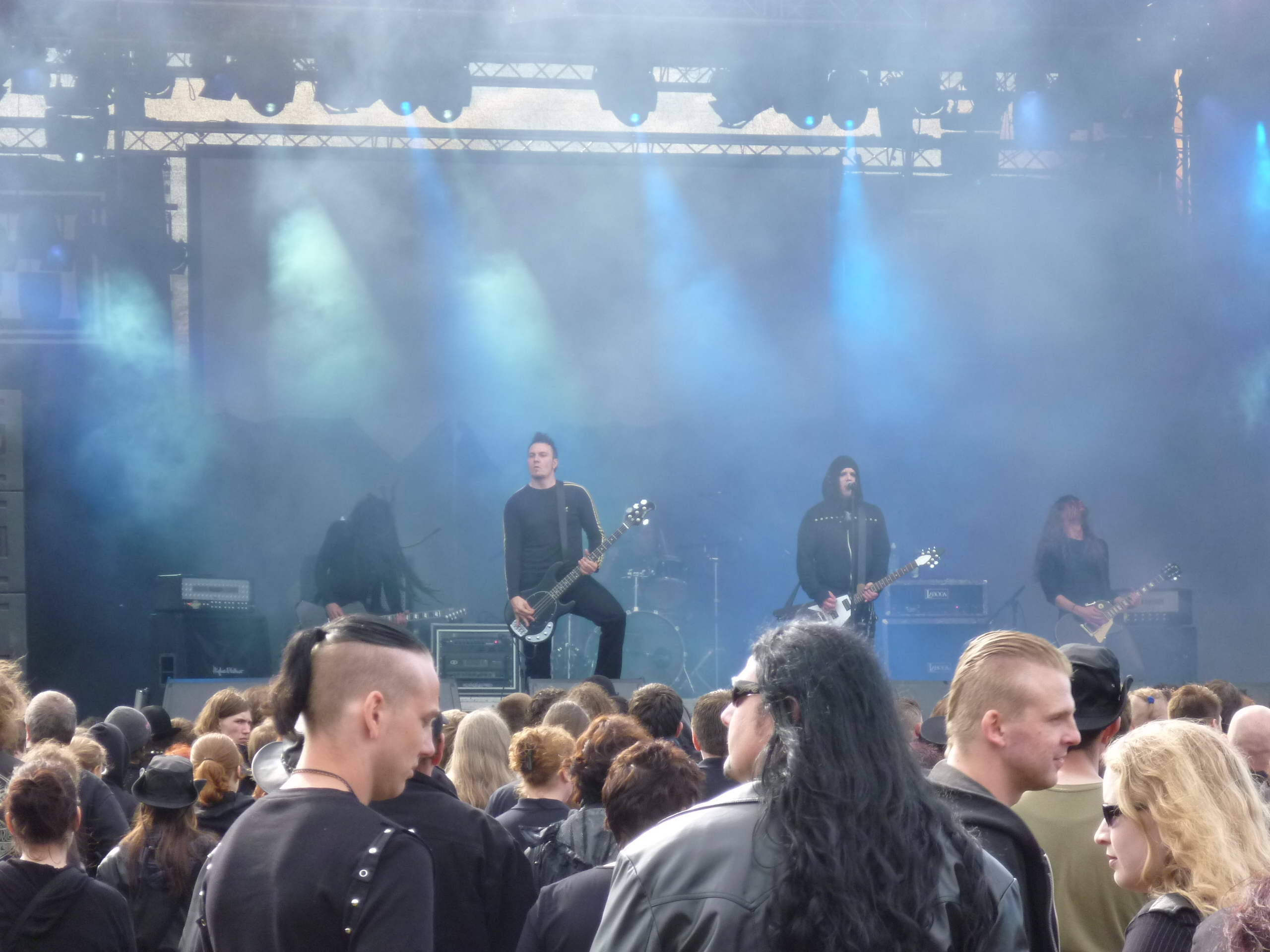 End of Green playing on the Hexentanz-Festival 2010